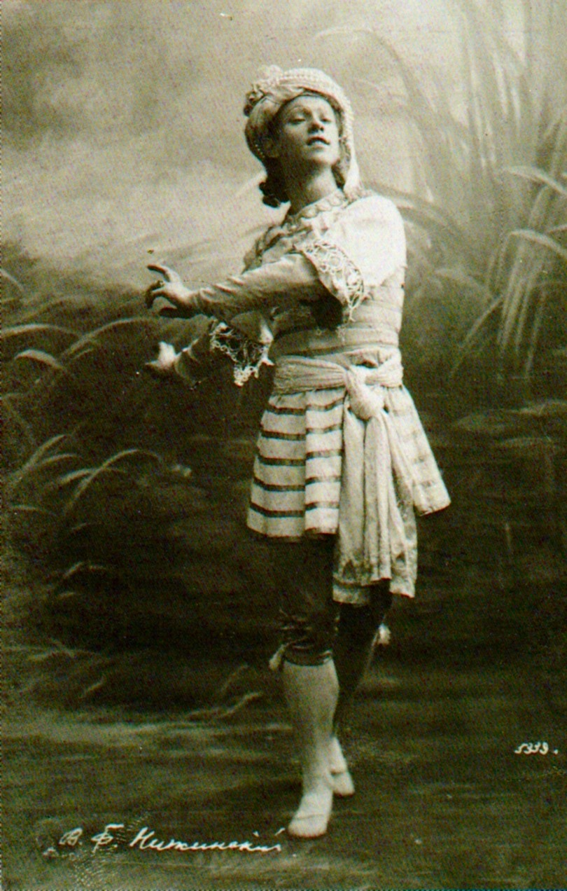 Cropped photographic postcard of the danseur Vaslav Nijinsky (1889-1950) costumed as the God Vayou in the dancer/choreographer/teacher Nikolai Legat's (1869-1937) revival of the choreographer Marius Petipa (1818-1910) and the composer Riccardo Drigo's (1846-1930) ballet Le Talisman.